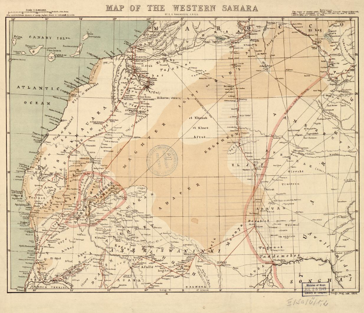 This map by Ernest George Ravenstein (1834-1913) appeared in the London Geographical Magazine in 1876. Ravenstein was a British geographer and fellow of the Royal Geographical Society. He is best remembered for his pioneering Laws of Migration, published in 1885, which provided the theoretical underpinning for much subsequent scientific work on migration. This map shows the Sahara Desert, from present-day eastern Mali to the Atlantic Ocean. Shown in red are the tracks of the important 19th-century explorers who crossed the desert, including the Frenchman René-Auguste Callié (1799-1838), who in 1827-28 became the first European to visit Timbuktu and return, and the German Gerhard Rohlfs (1831-96), who in 1864-67 became the first European known to cross Africa by land from the Mediterranean Sea to the Gulf of Guinea.